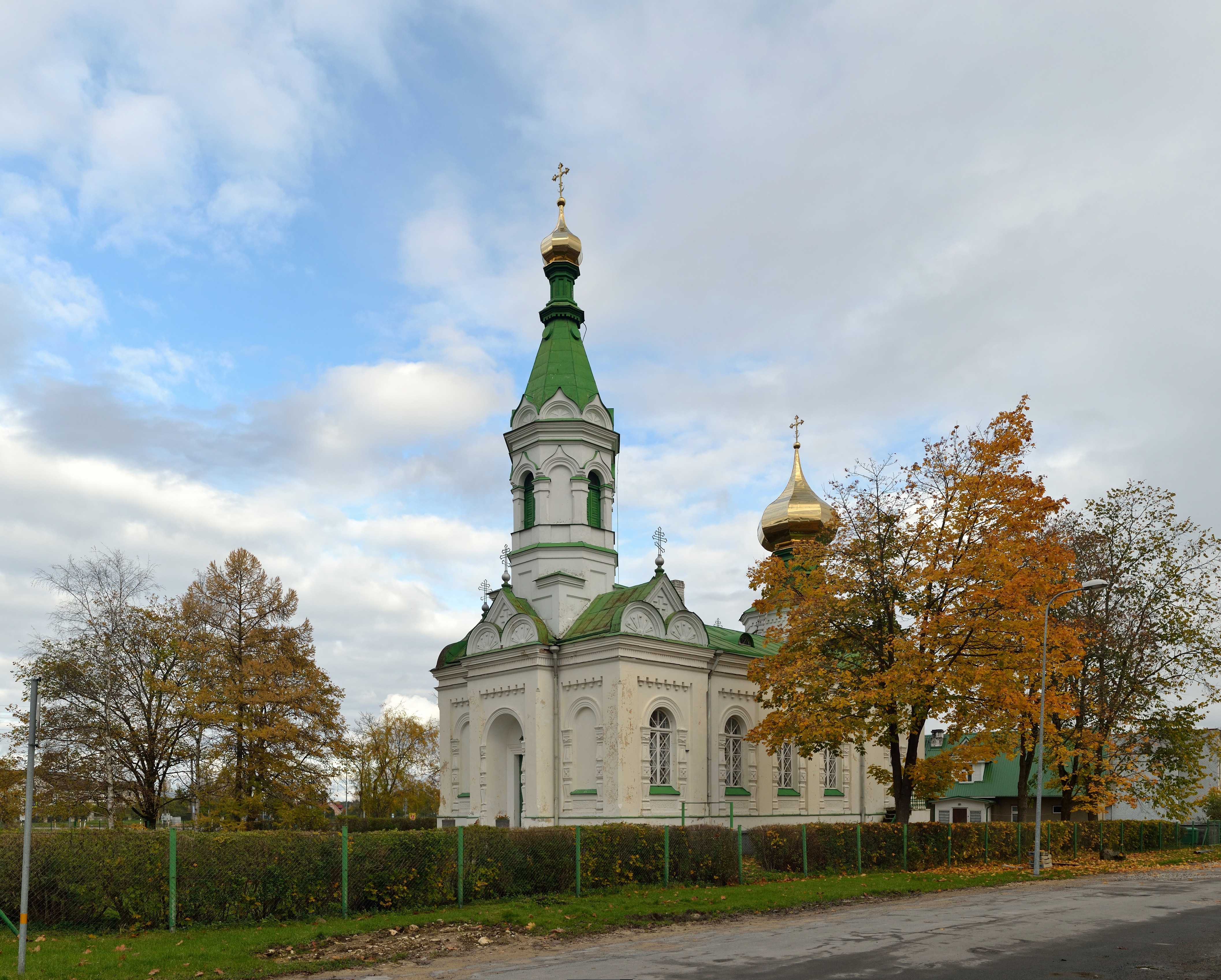 Orthodox Church of Saint John the Forerunner in Tapa, built in 1904